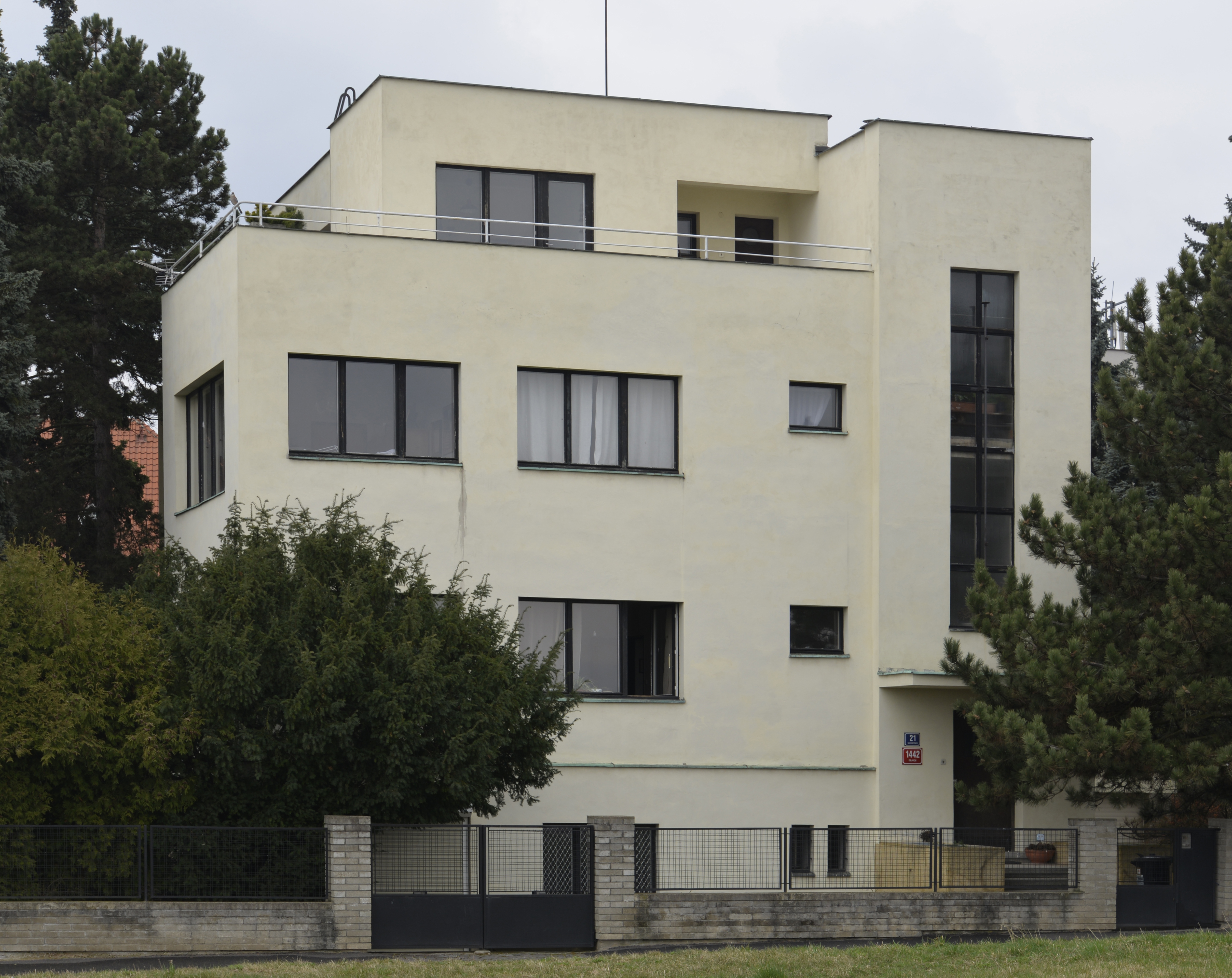 Na Kodymce 1442/21, functionalist family house, architect Antonín Moudrý, 1932-33, Dejvice, Praha